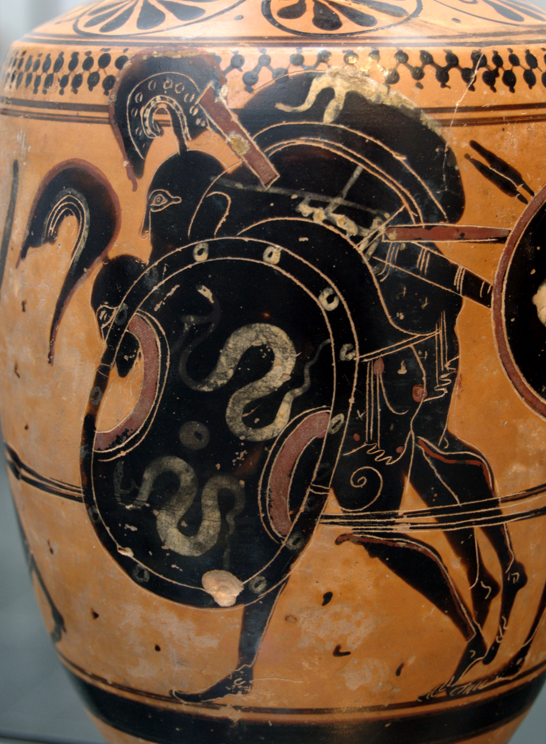 Ajax carrying the body of Achilles. Attic black-figure lekythos, ca. 510 BC. From Sicily.